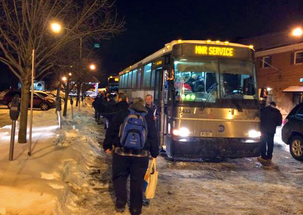 Passengers from MetroNorth train at Pleasantville board shuttle bus to North White Plains to make train connections on Wednesday, February 4, 2015, following train/car collision. Photo: MTA New York City Transit